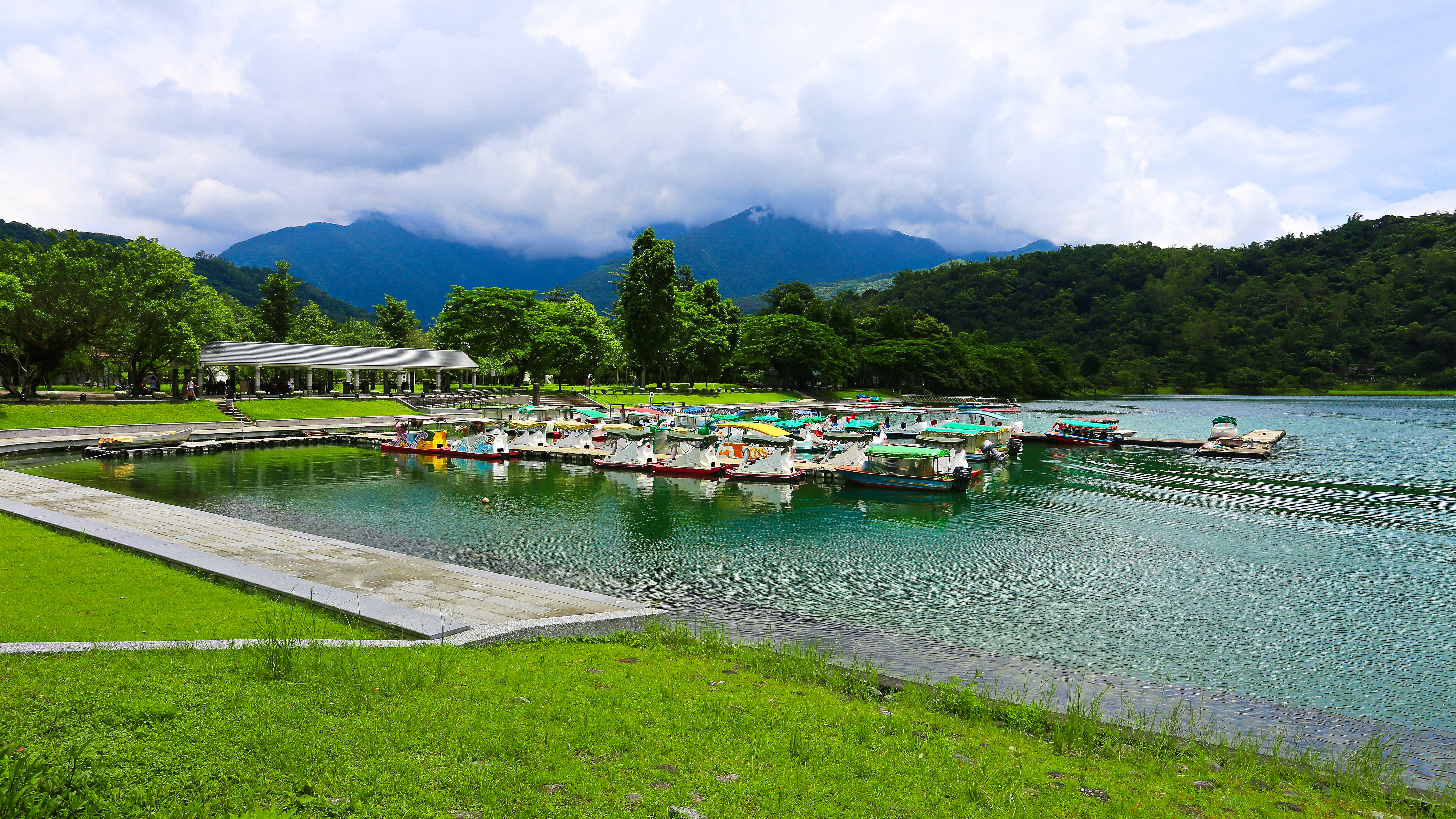 Liyu Lake, Shoufeng Township, Hualien County, Taiwan.